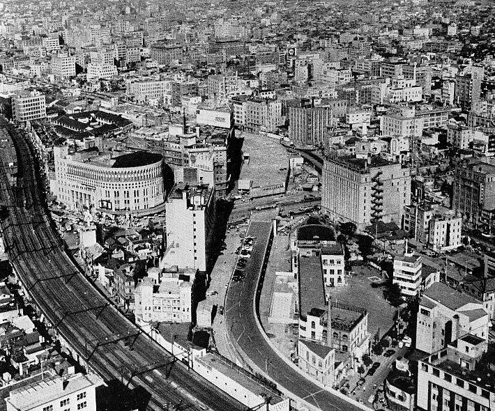 View of Yurakucho circa 1960